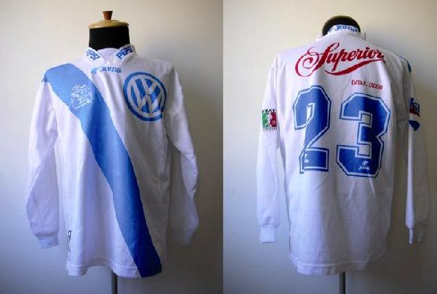 Puebla fc jersey used in 1999 2000